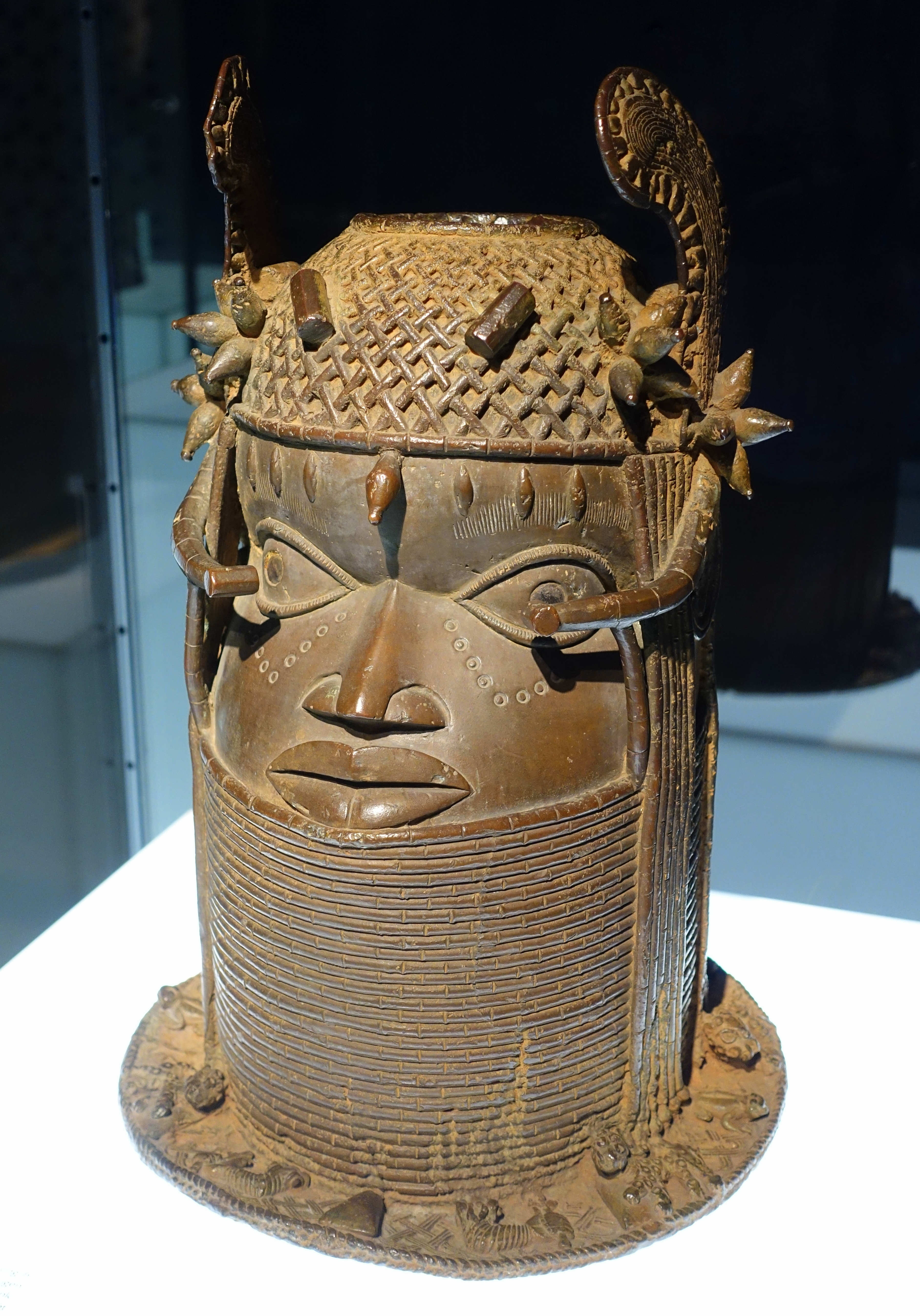 Exhibit in the Ethnological Museum, Berlin, Germany.